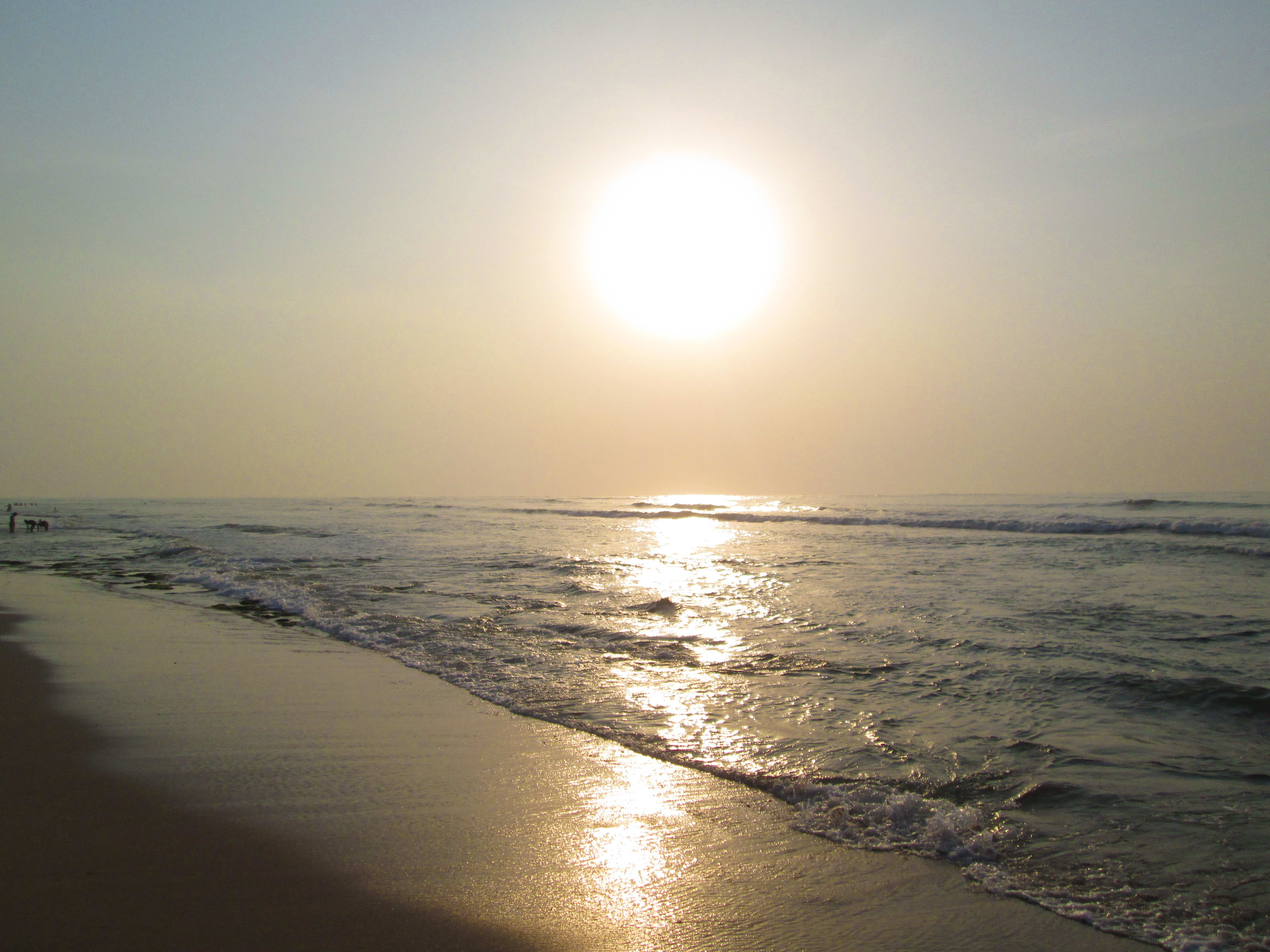 Sunrises in the Bay of Bengal seen from Tiruchendur a town in Tamil Nadu, India